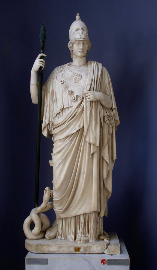 Athena Giustiniani. It was found in the temple of Minerva Medica on the Esquiline Hill, and is supposed to be a copy of a statue by Pheidias. It is admirably preserved, and is sculpted in the finest Parian marble. Vatican, Museums.